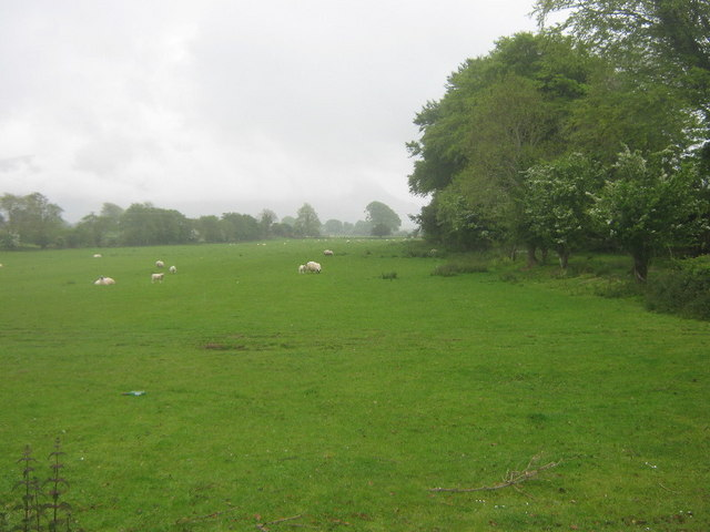 Farmland at Grenagh Looking towards the cloud covered mountains.